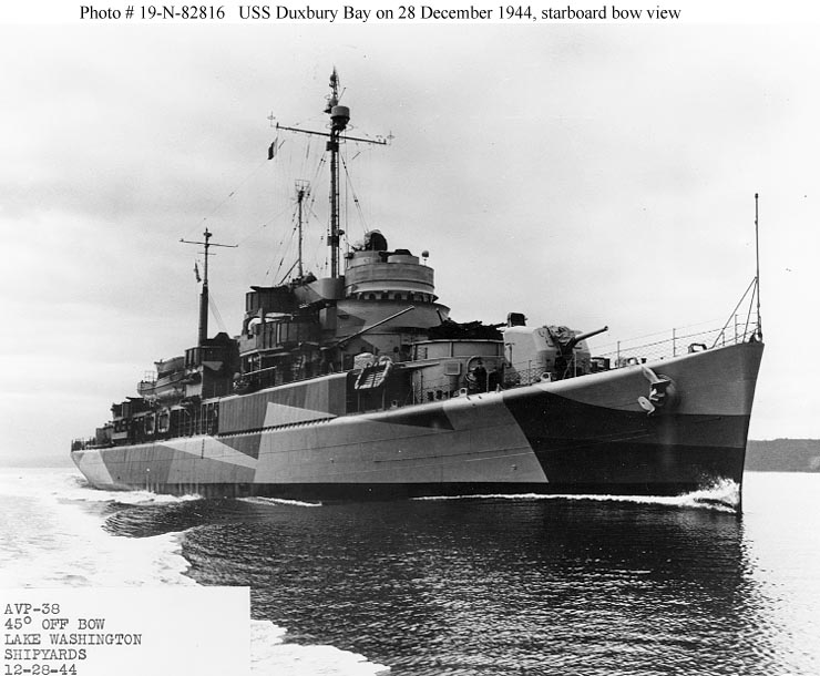 USS Duxbury Bay photographed off the Lake Washington Shipyards, Houghton, on 28 December 1944. Her camouflage is Measure 33 Design 1F.